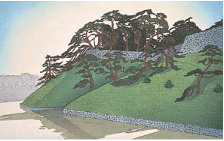 photo